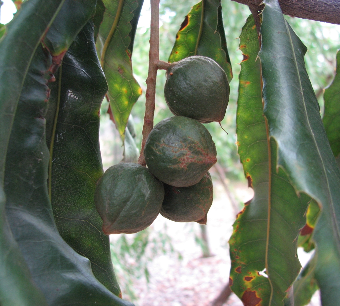 Macadamia tetraphylla (cultivated, labelled) Maranoa Gardens, Balwyn, Victoria, Australia